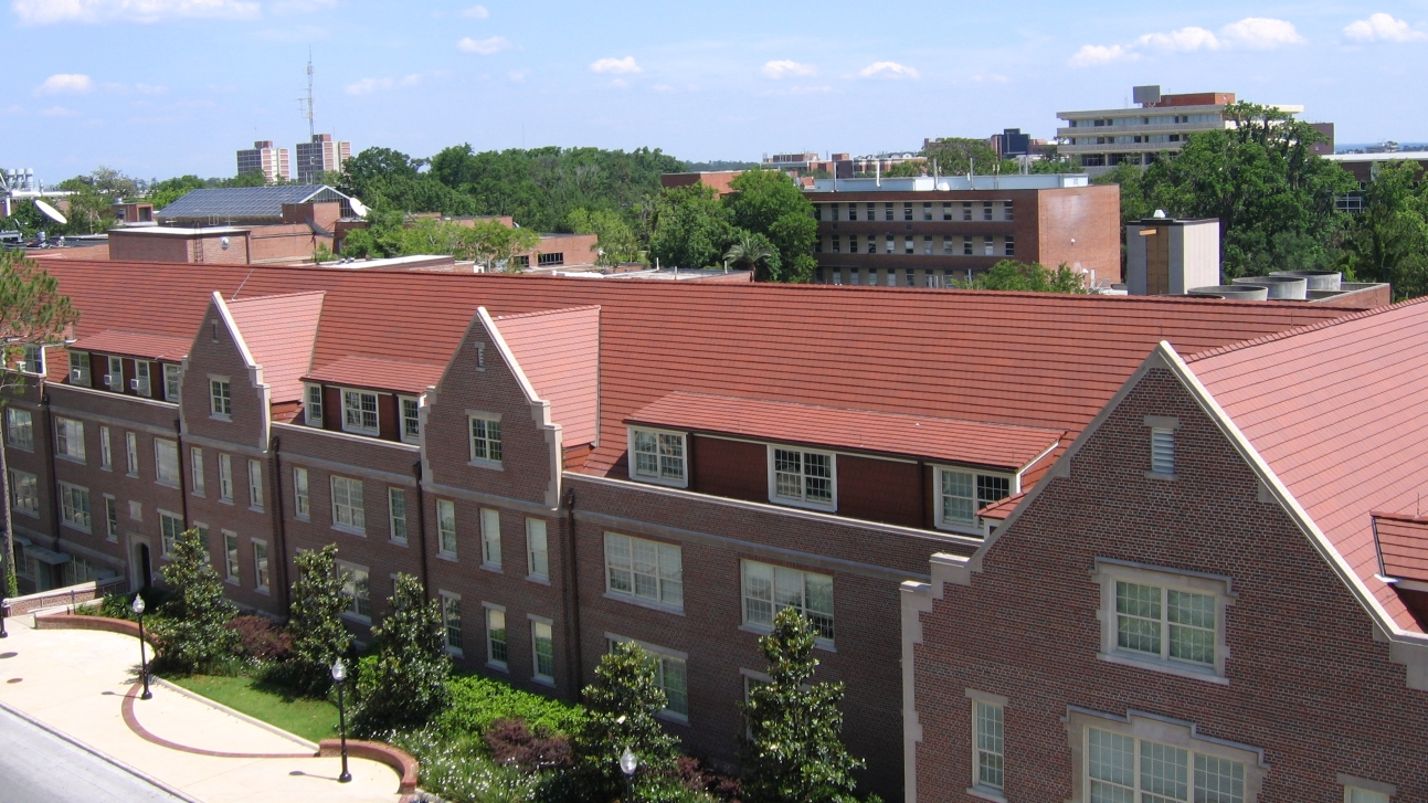 University of Florida - campus skyline looking south from top of Ben Hill Griffin Stadium